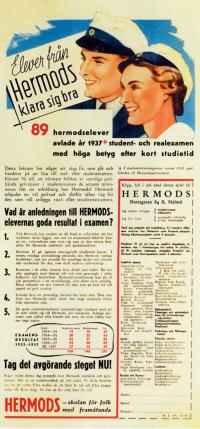 Advertisement for Hermods (distance learning school) in Sweden